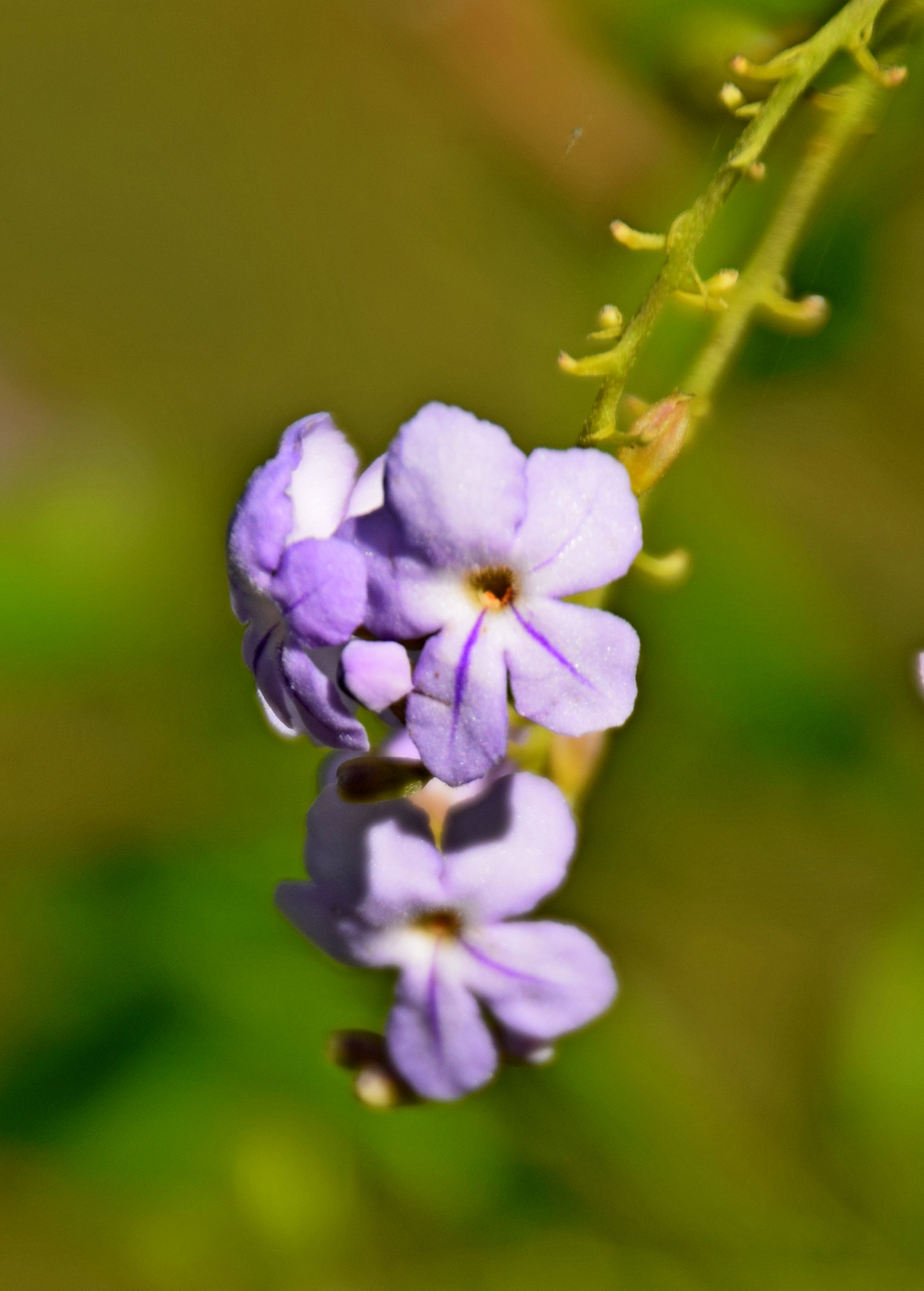 Duranta serratifolia in Jardin des Plantes de Toulouse